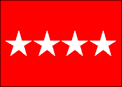 Standard of a General of the Army (United States)